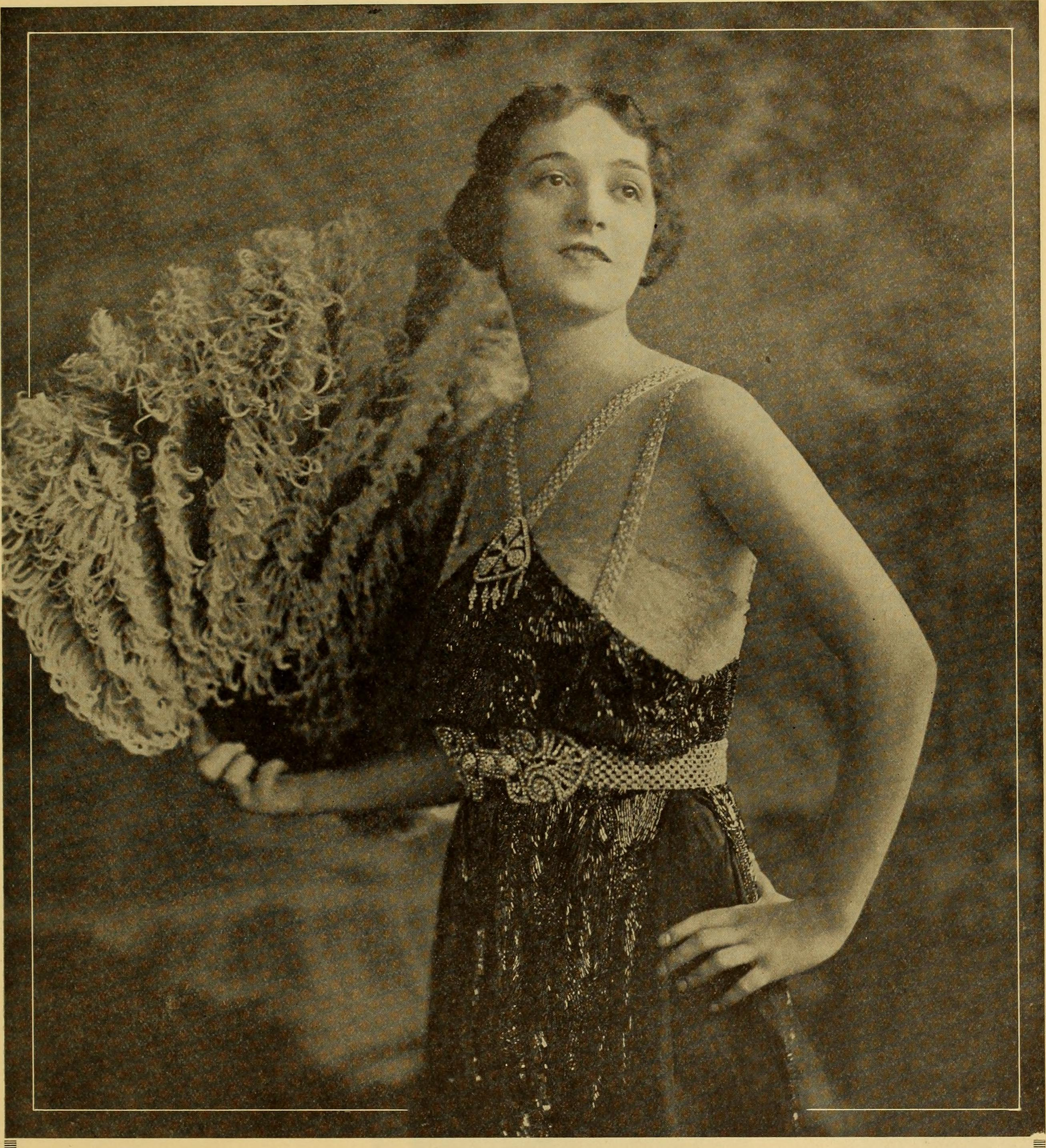 Title: Motion Picture Studio Directory and Trade Annual (1917) Year: 1917 (1910s) Authors: Motion Picture News, Inc. Subjects: Motion Pictures Film Industry Yearbook nyarc-museumofmodernart Publisher: New York, Motion Picture News, Inc. Text Appearing Before Image: imiiiiimiimmiimiiiiiimiiimiiiiimiiiiiiiiiiiiimiiiimiiimiiiiiimiiiy Wm. Parke, Jr. I Pathe-Astra Her New York The Candy Girl ;Cigarette and The Carnabys !!iiiiiiiiiiiiiiiiimi!iim:!iiimiiiiiiiiiiiiiiimiiiimiiiiiiiiiiiiiiiiiiimiiiimiiiiiimiiiiiiiiiiiiiim:iiiiiiiiiiiiii:iimiii mi imimmiiiimiiiii^ CLIFFORDBRUCE In Passion, Seven DeadlySins Series, McCLURE ^iiiiiMiiiniiHhuiitiiinnuiiiiitiifniiiuiiiiiiiuiMiiinTiiiininiiiiiiiiMiTiiiiiitnimiiiiiiniiiiiiininiiinuiniiiniiiimimimiiiiiiiiitiitnniniinnittiiMiiiiMinitiiiiniiiiiiin^ fliimmiimiiiimiiiiiimiiiiimiiiiimiiiimiiiimimiiiimiiiiiiiiiiiimiiiiimiiiimiiiimmiimiiiimiiiiiiiii Be sure to mention MOTION PICTURE NEWS when writing to advertisers iiiiiiiiiiiimimmiim? April 12, 1917 STUDIO DIRECTORY 237 Text Appearing After Image: AIMEE DALMORES ; PATHE STAR ; jj Late with The Unchastened Woman, (at 39th St. Theatre, New York.) Leading woman with Milton Royles Peace and Quiet. §lj Note playing Society Vampire in Pathes ; FIFTH AVENUE ; B Under Direction George Fitzmaurice H liiiiiiiiiiiiiiiiiiiiiiiiiiiiiiiiiiiiiiiiiiiiiiiw llllllllllllllllllllllllllllllllllllllllllllllllllllllllllllllilllliiilllllllllllllllH Be sure to mention MOTION PICTURE NEWS when writing to advertisers 238 MOTION PICTURE ipiiiiiiiiiiiiiiiiiiiiiiiiiiiiiiiiiiiiiiiiiiiiiiiiiim Vol. II. No. 1 WALTERSHUMWAY